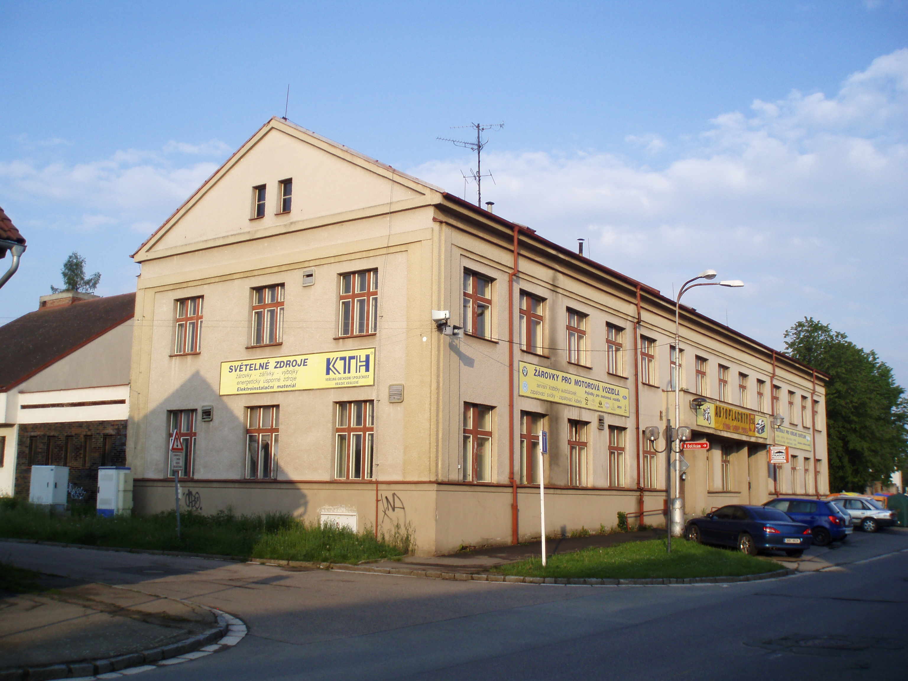 Worker's House in Svobodné Dvory (Hradec Králové, Czechia)